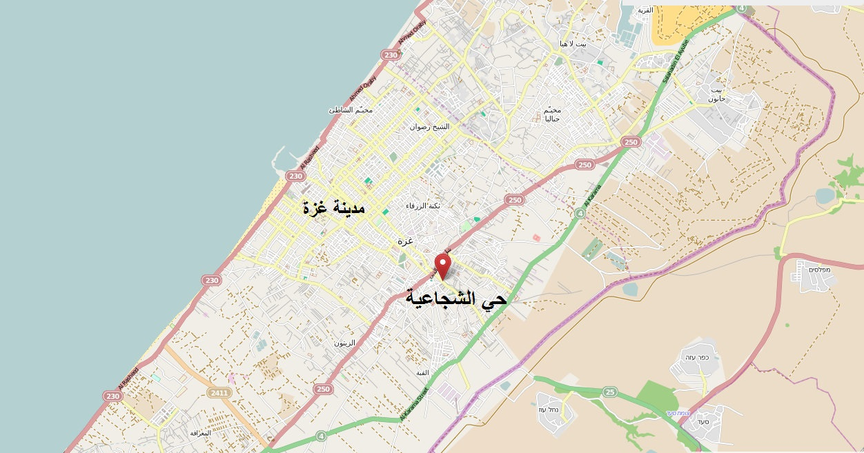 Shuja'iyya massacre 20.07.2014 This map may be incomplete, and may contain errors. Don't rely solely on it for navigation.